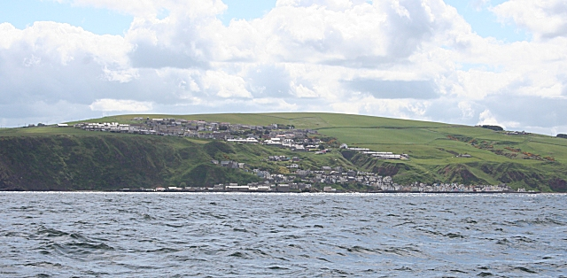 Gardenstown from the Sea, Aberdeenshire, Scotland